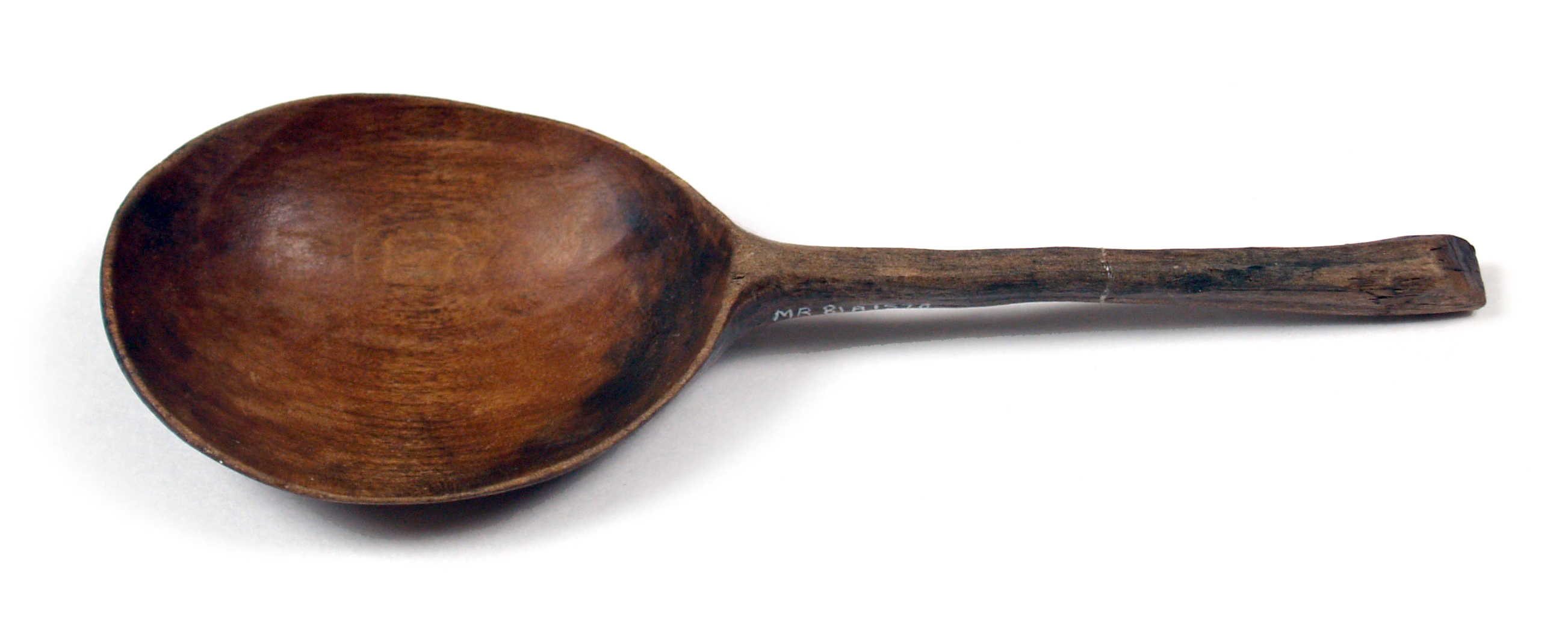 Wooden spoon found on board the 16th century carrack Mary Rose.